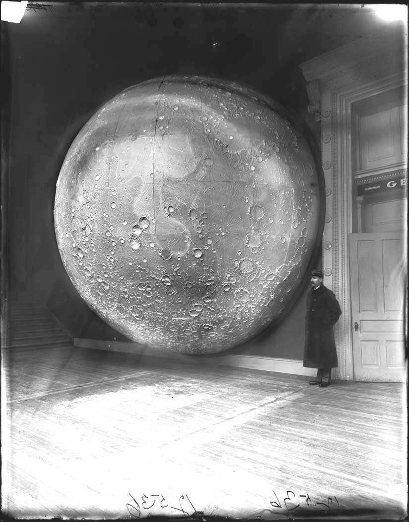 Field Columbian Museum West Court Alcove 103. Moon Model Prepared by Johann Friedrich Julius Schmidt, Germany. Made of 116 sections of plaster on a framework of wood and metal. Wood floor, security Guard in uniform in background, stairs leading up to the left. Sign above door "Geology" is not completely visible.